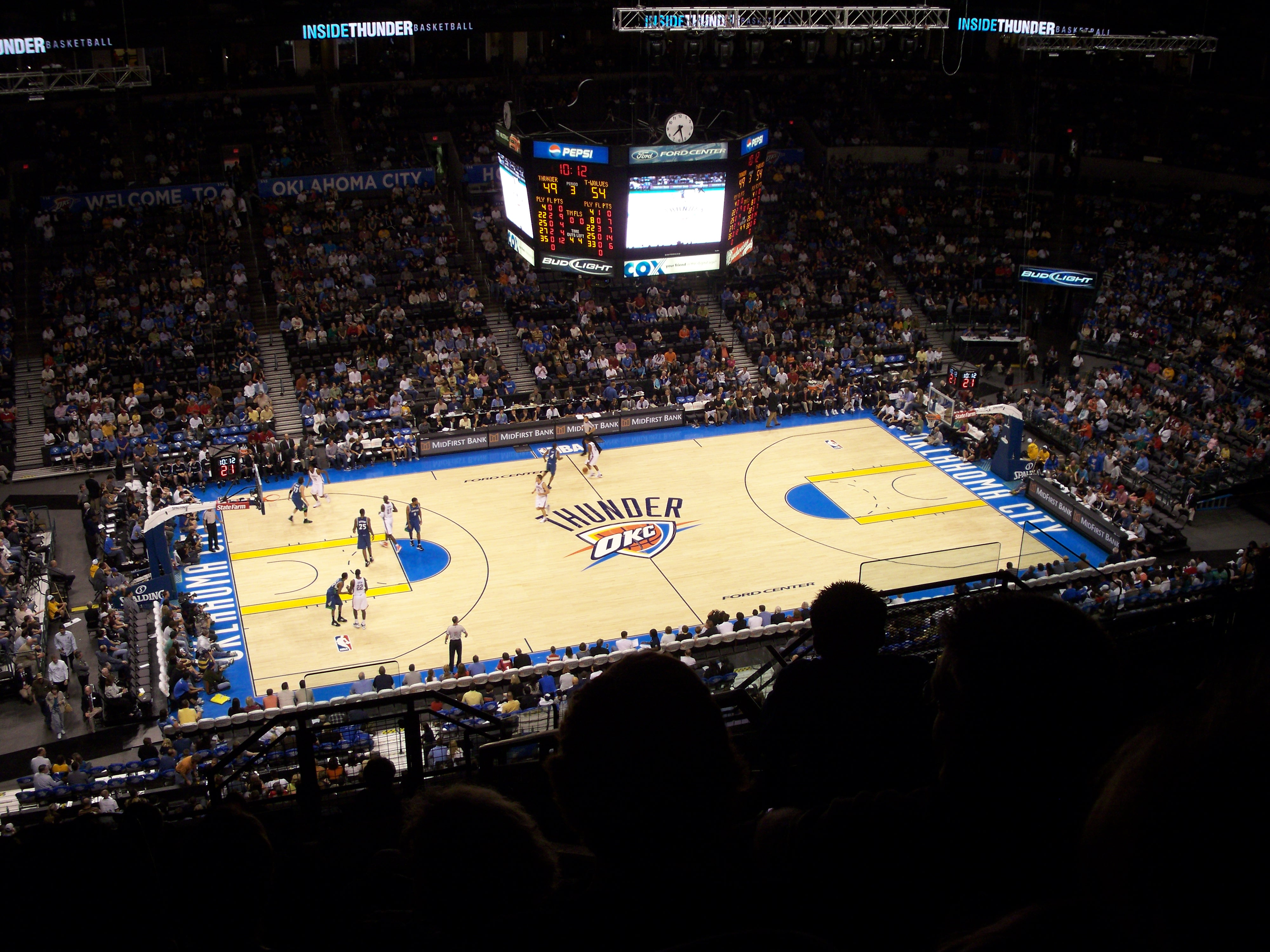 OKC Thunder home court